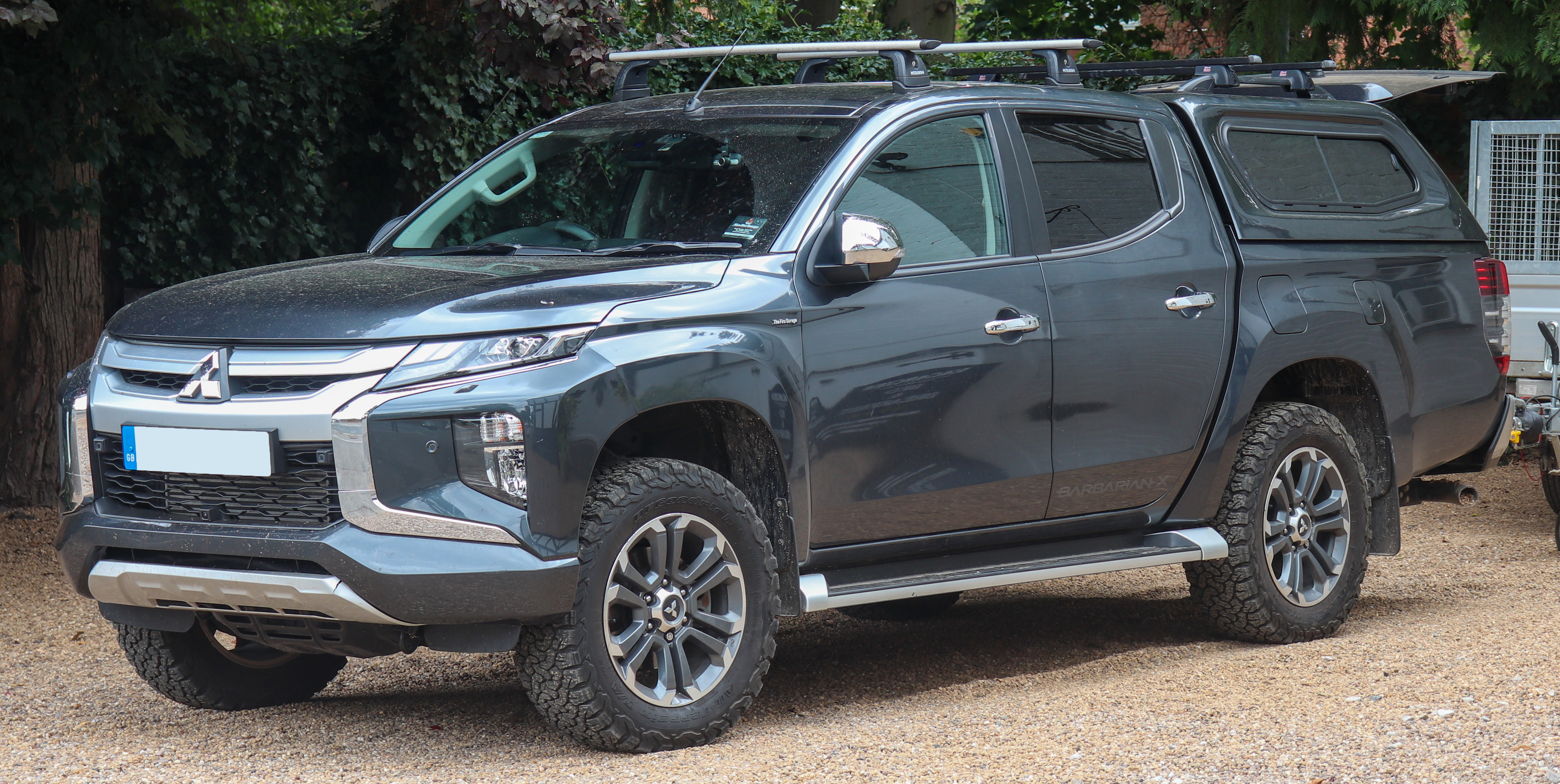 2019 Mitsubishi L200 Barbarian X DI-D Automatic 2.3 Taken in Warwick